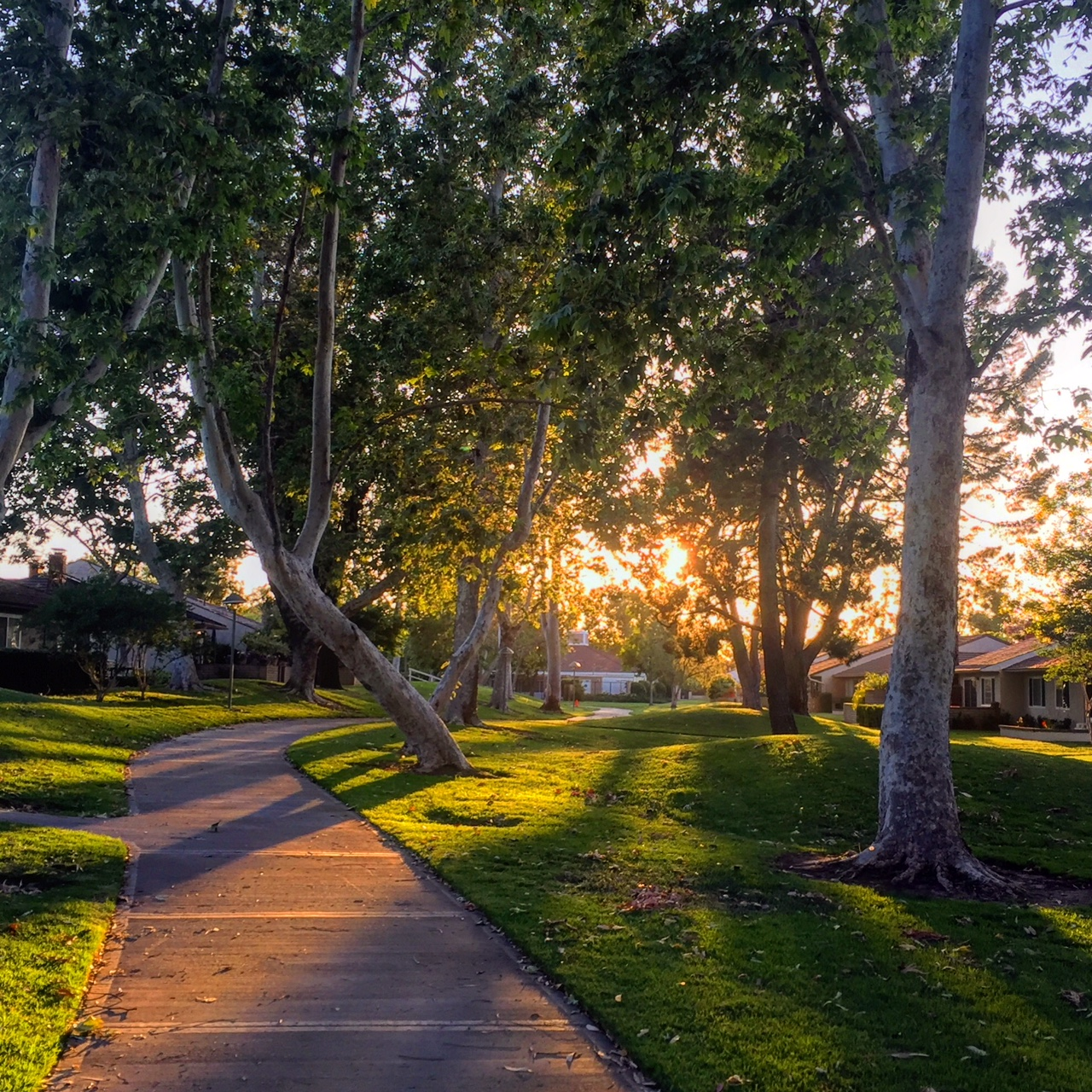 A portion of a greenbelt in University Park, Irvine, California in the Terrace Community Association.